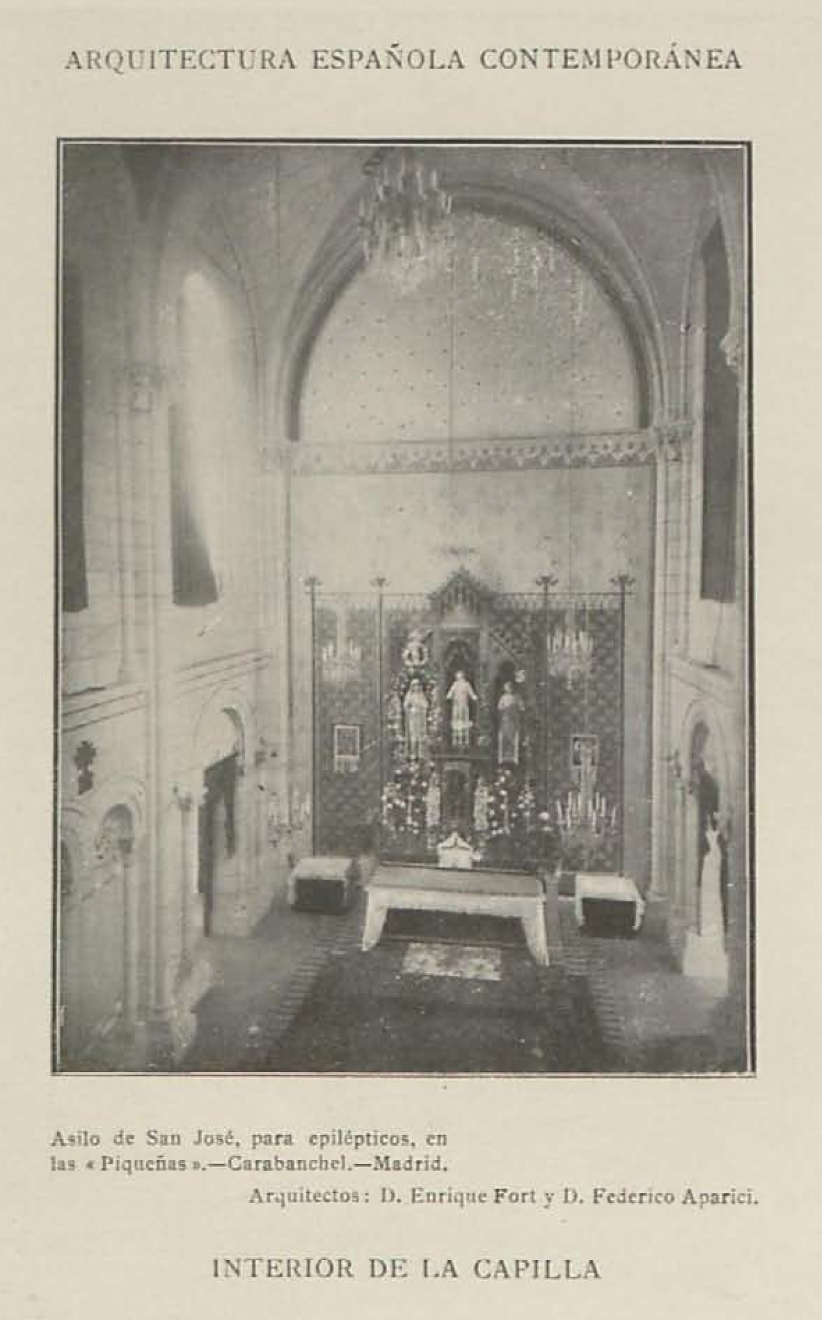 Interior de la capilla. Asilo de San José para epilépticos, en las Piqueñas, Carabanchel.